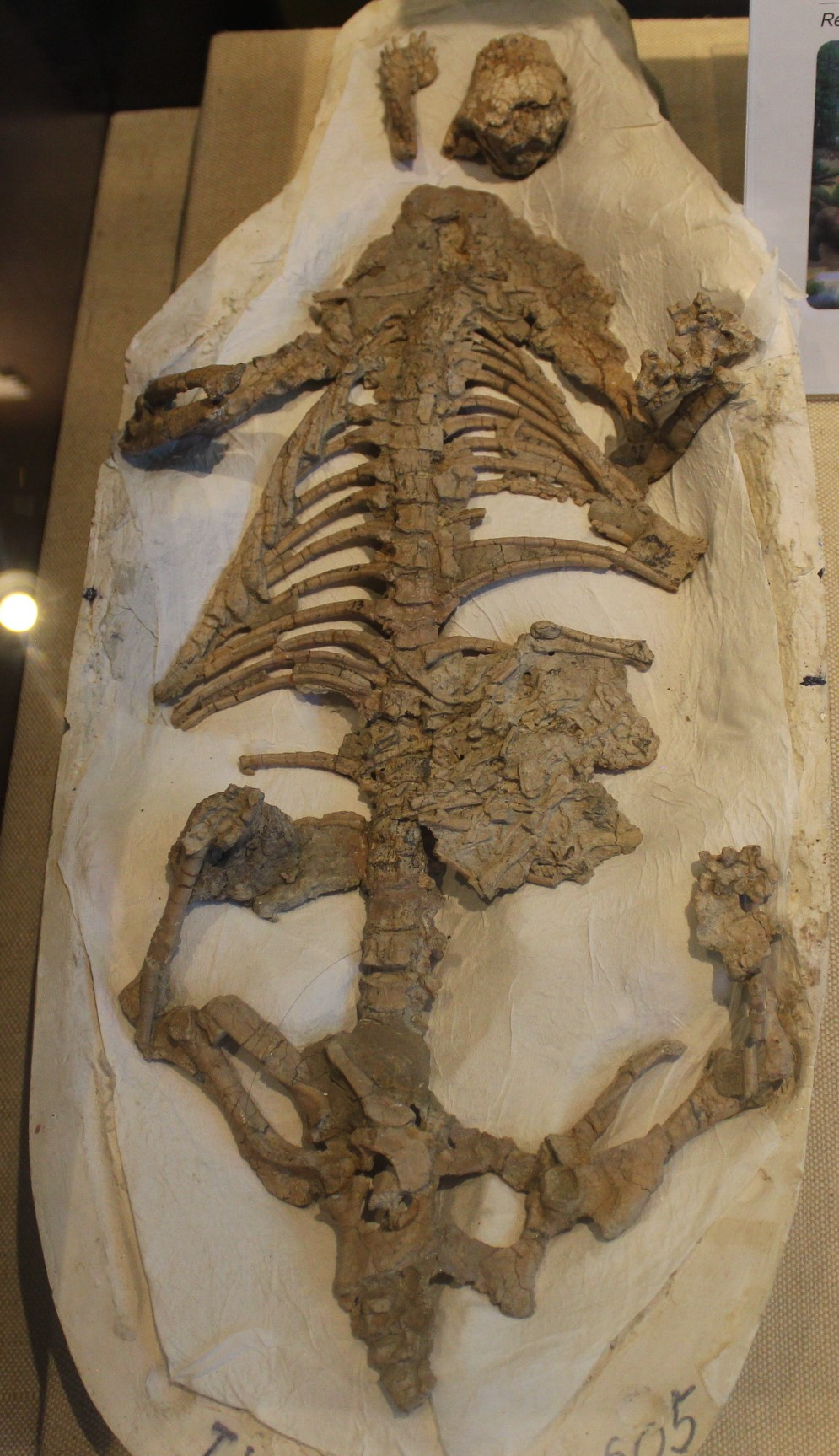 Skeleton of Repenomamus robustus (IVPP V13605) with Psittacosaurus remains in its stomach on display at the Paleozoological Museum of China.